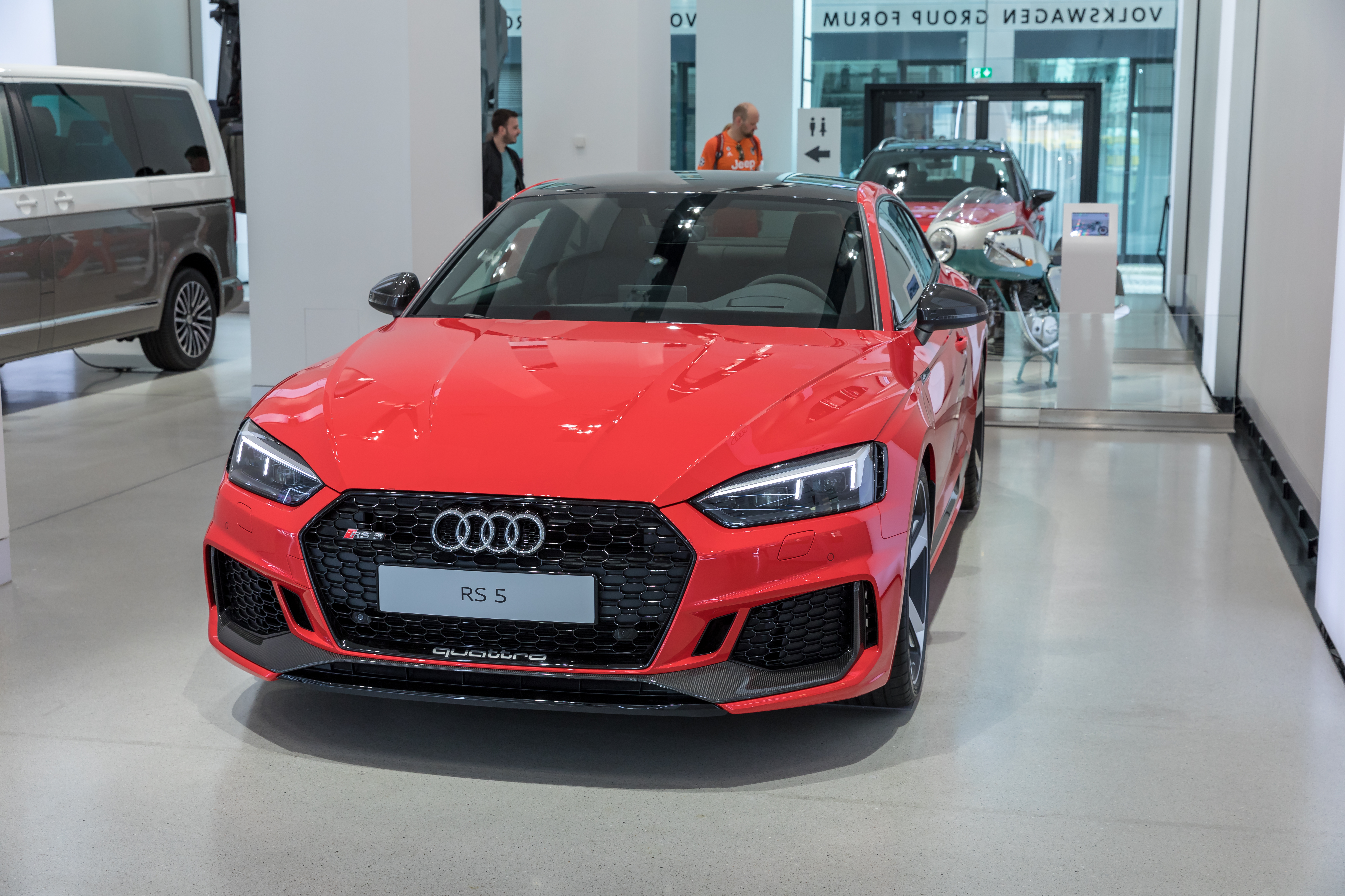 Audi RS5 at 70 Years Porsche, DRIVE. Volkswagen Group Forum